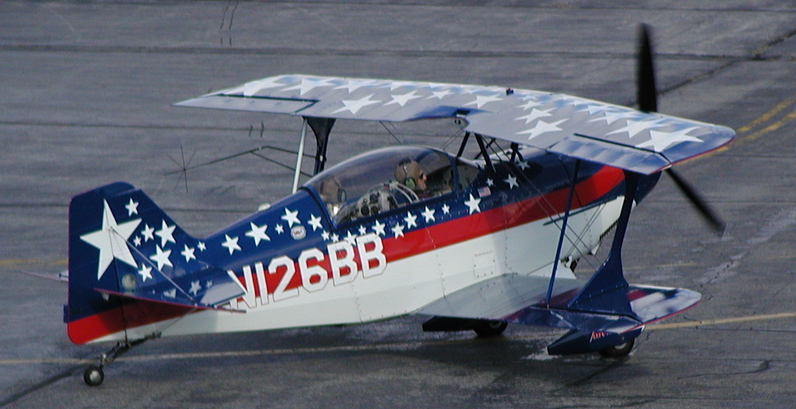 2001 Aviat Pitts S-2C (N126BB). Photo by me, Peter H. Schmidt, Nov 11, 2003